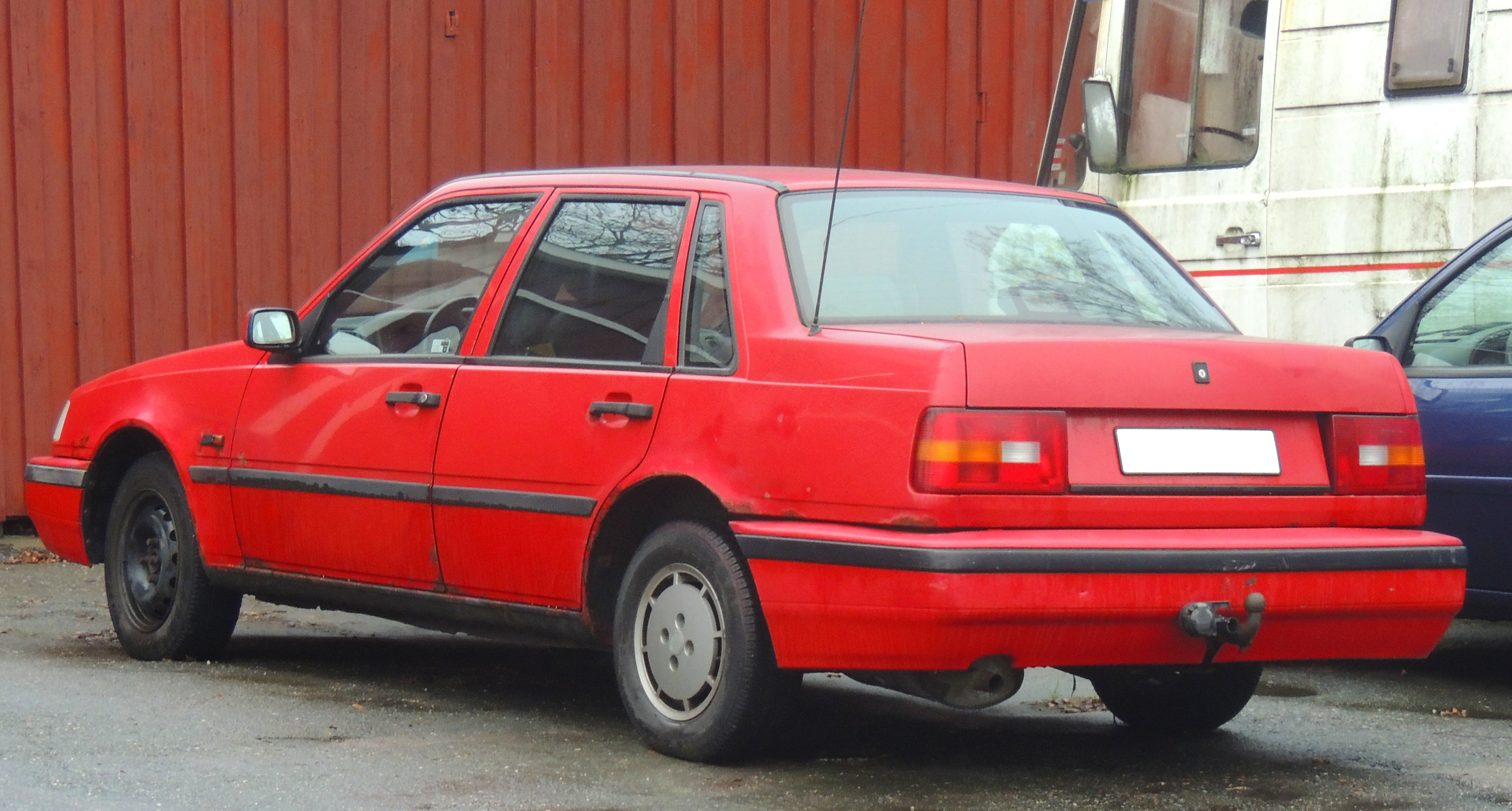 Red 1994 Volvo 464-313 GL